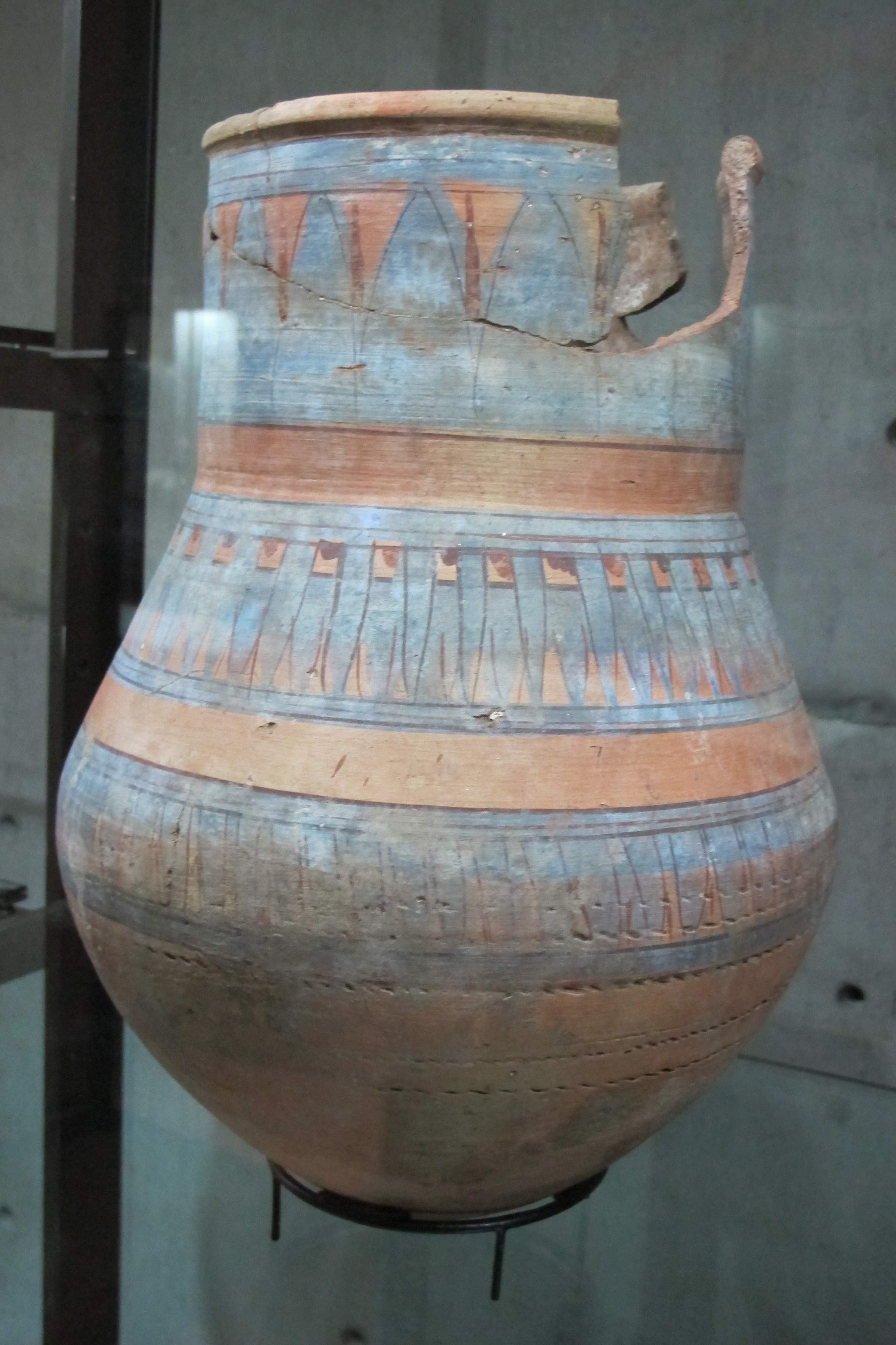 Ceramic vessel, blue painted. Thought to be 18th-19th dynasty.